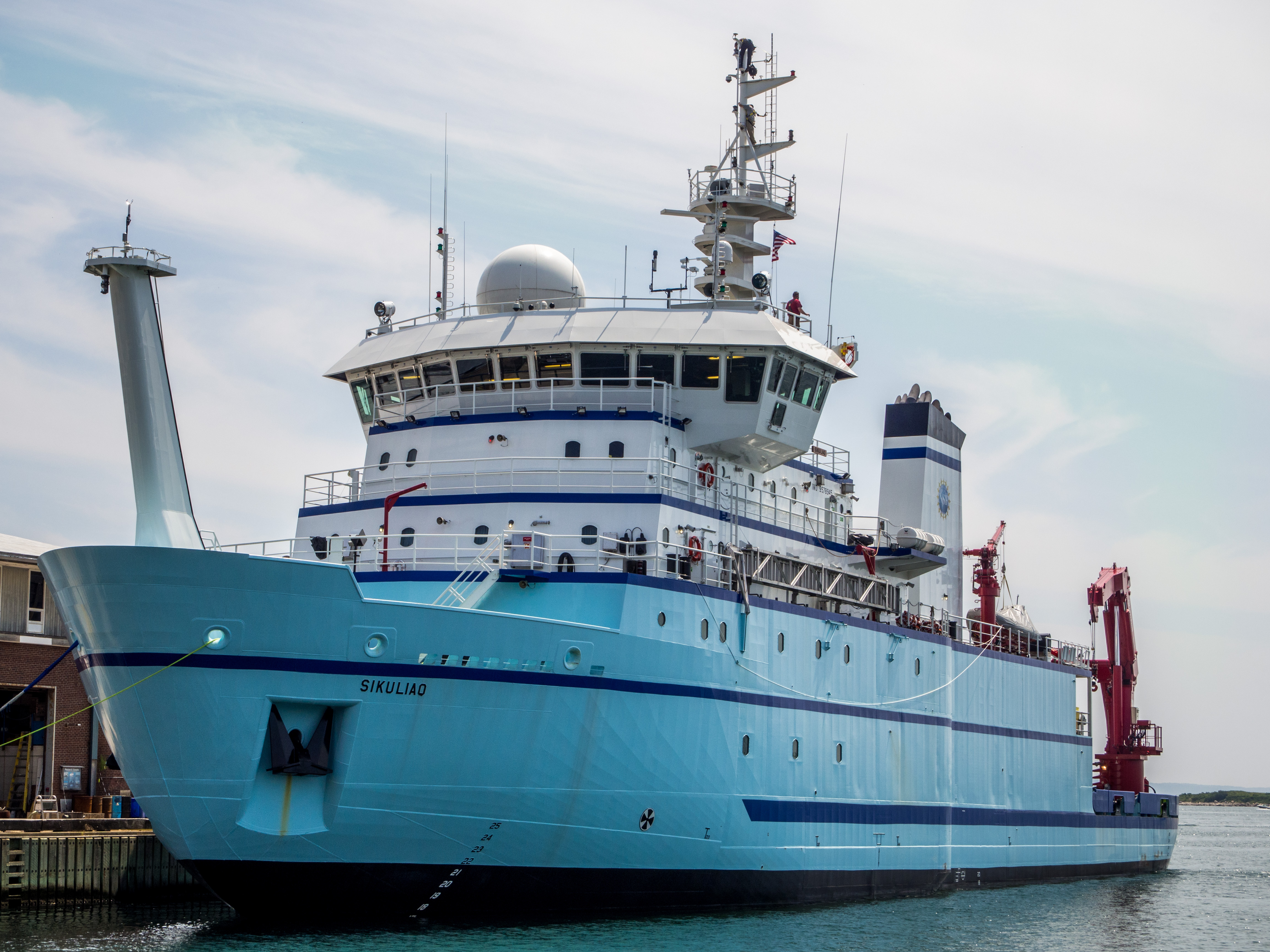 Photograph of research vessel Sikuliaq at Woods Hole, Massachusetts, USA.